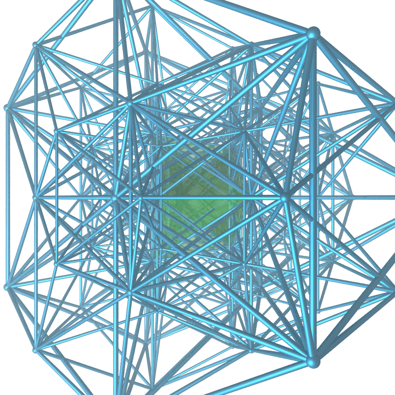 Perspective projection of 4d demitessaractic tetra honeycomb